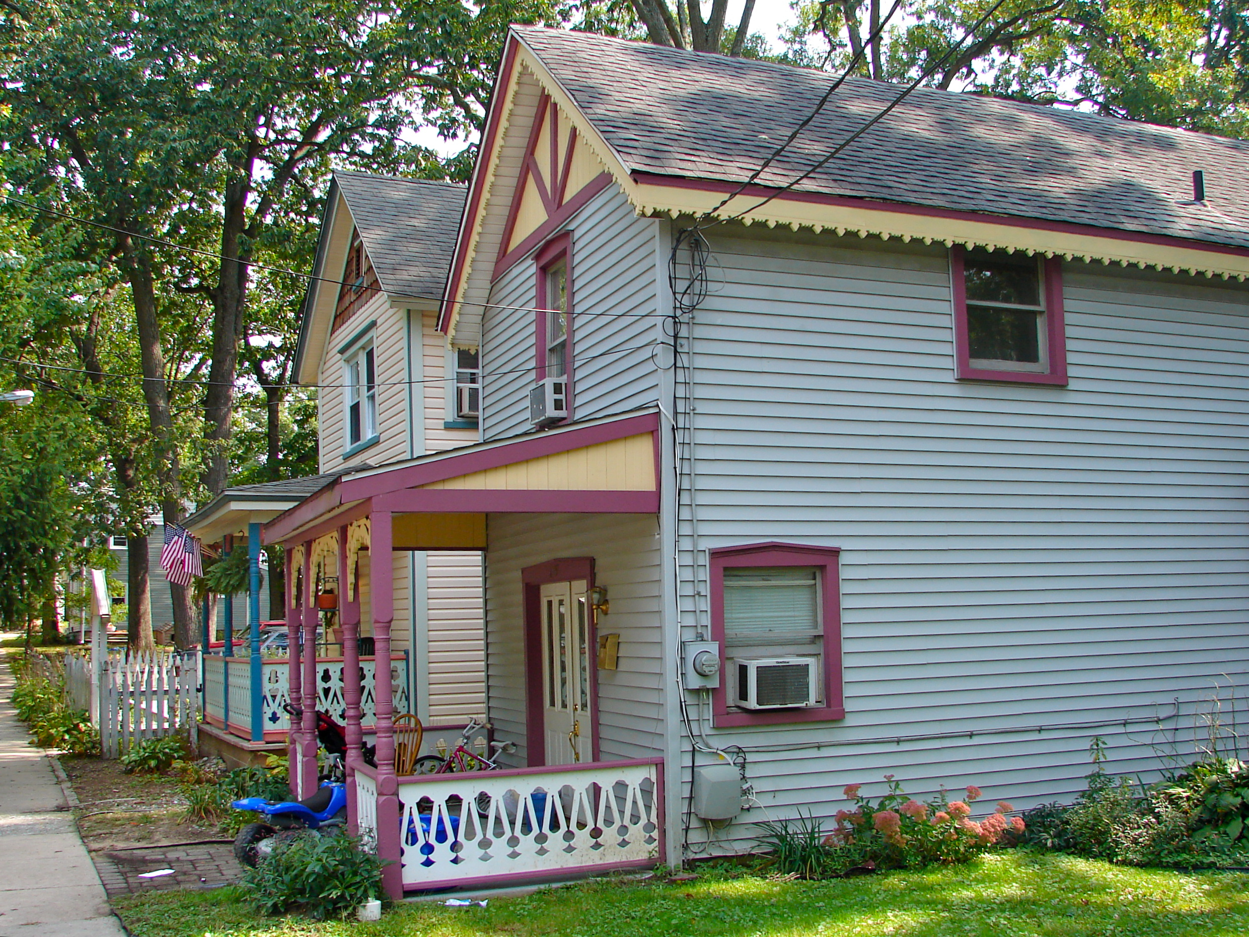 Pitman Grove on the NRHP since August 19, 1977. The Historic District is bounded by Holly, East, Laurel, and West Aves. (both sides). The "Streets" which are numbered 1-12 (as in the apostles) form spokes around the central church of the old camp meeting. But the streets are actually sidewalks - not big enough for two baby carriages to pass each other. Houses were built a few years after the founding. In Pitman, New Jersey